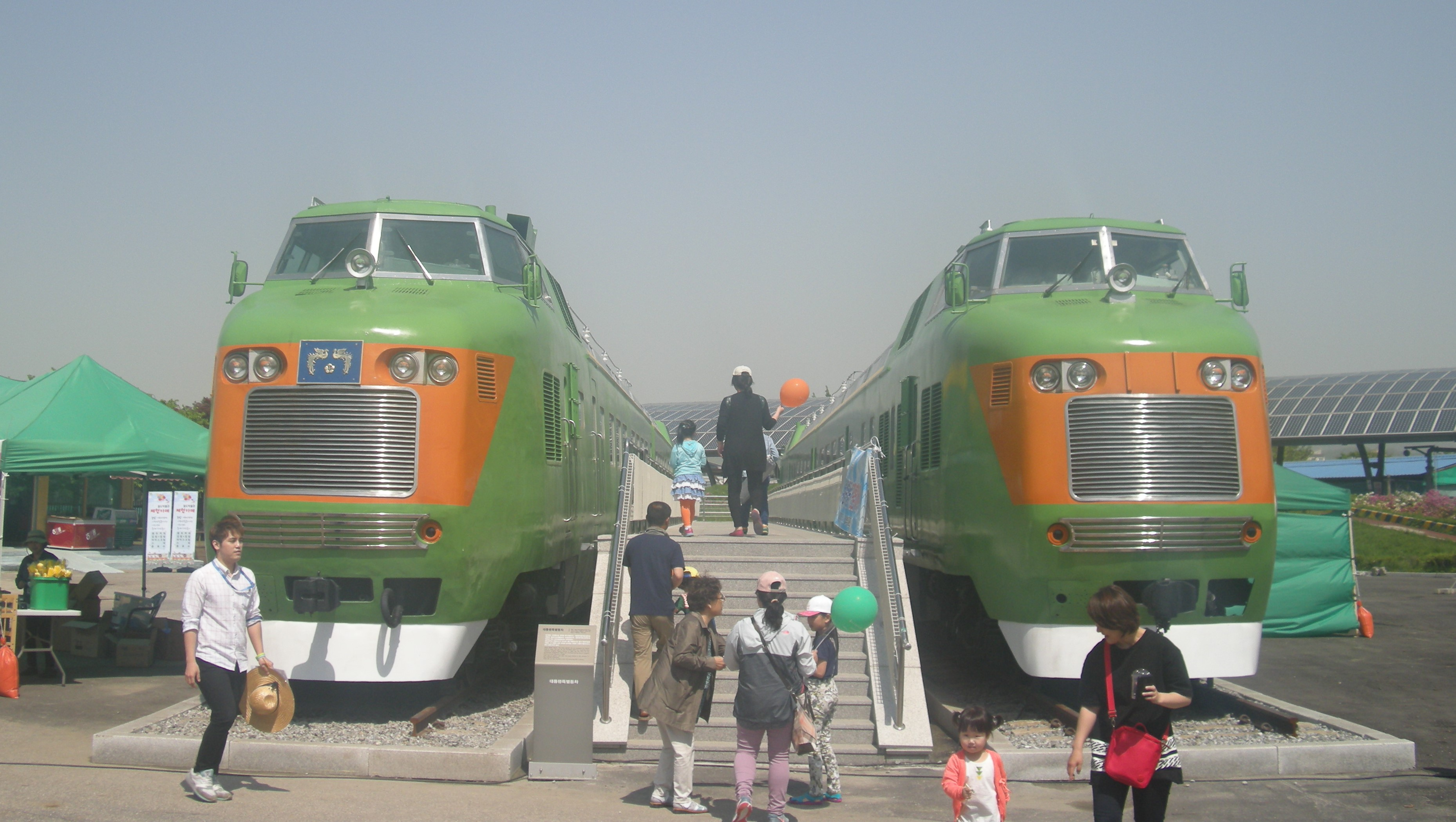 Diesel electric cars for the President of South Korea (left; No. 1 and 2) and his bodyguards (right; No. 5 and 6). The left were imported from Nippon Sharyo in 1969, and the right were made by Daewoo Heavy Industries in 1985.